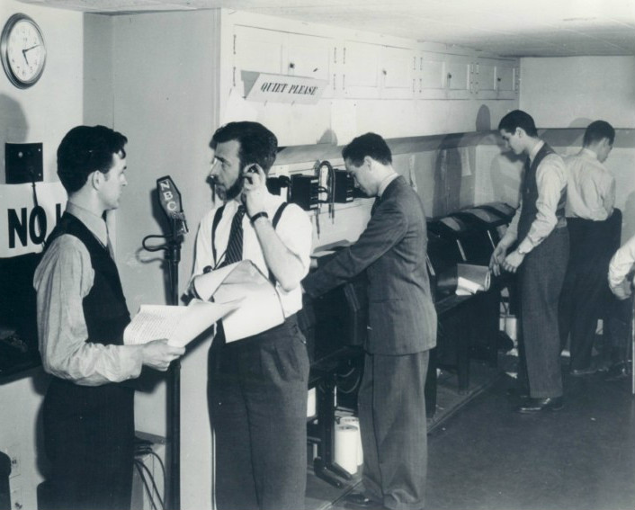 Photo of the NBC Radio network newsroom in New York. News broadcaster Robert St. John (at microphone) watches the clock as he prepares to interrupt regular programming with a news bulletin. The teletype machines in the back of the photo were the sources of news stories from various wire services such as Associated Press and United Press International. Since there was a constant stream of news being fed over the wires, people were employed to keep an eye on what the teletype machines were printing out and alert news staff of any important stories that came over them.